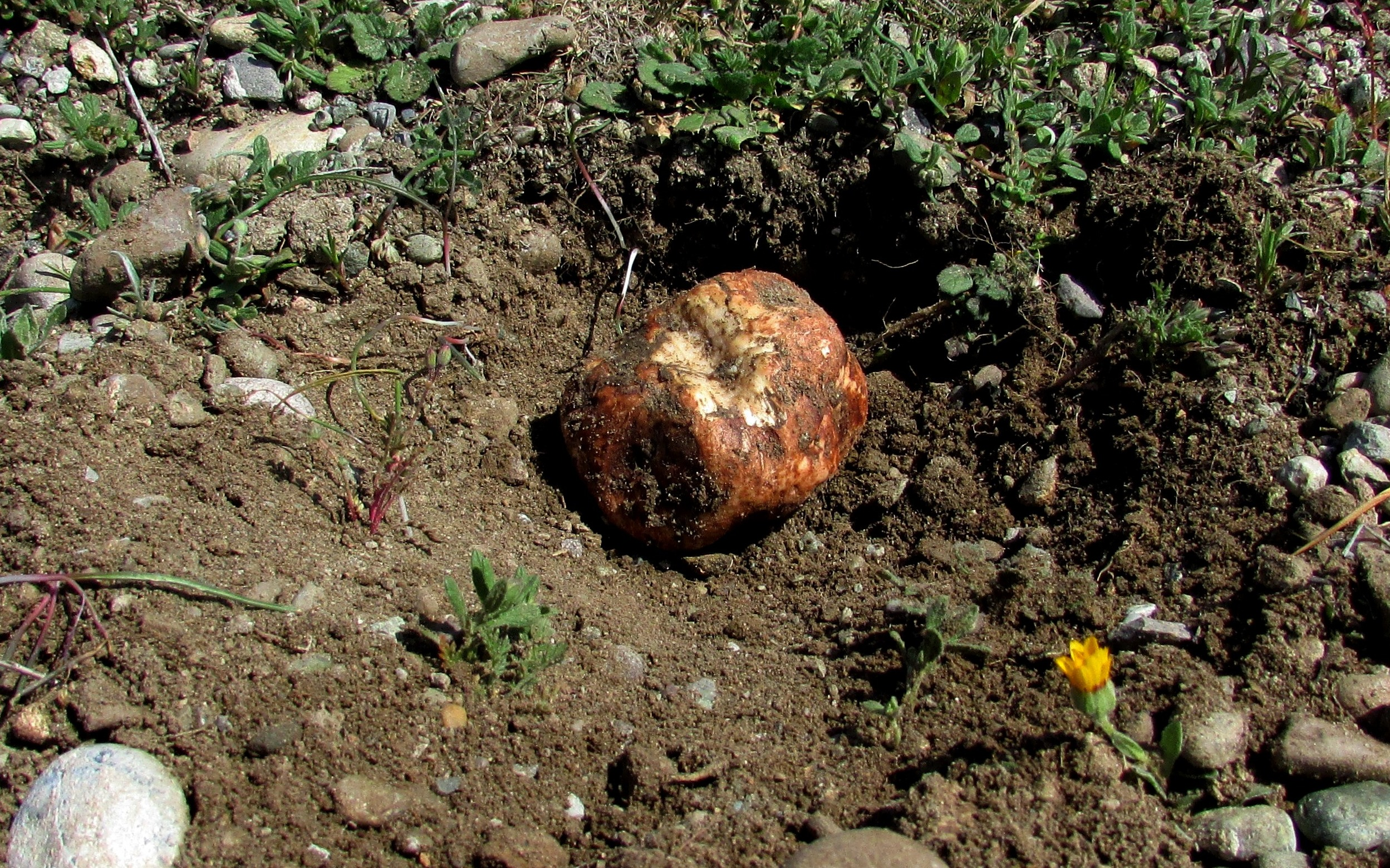 This photo of Truffle was taken in the Arasbaran region.